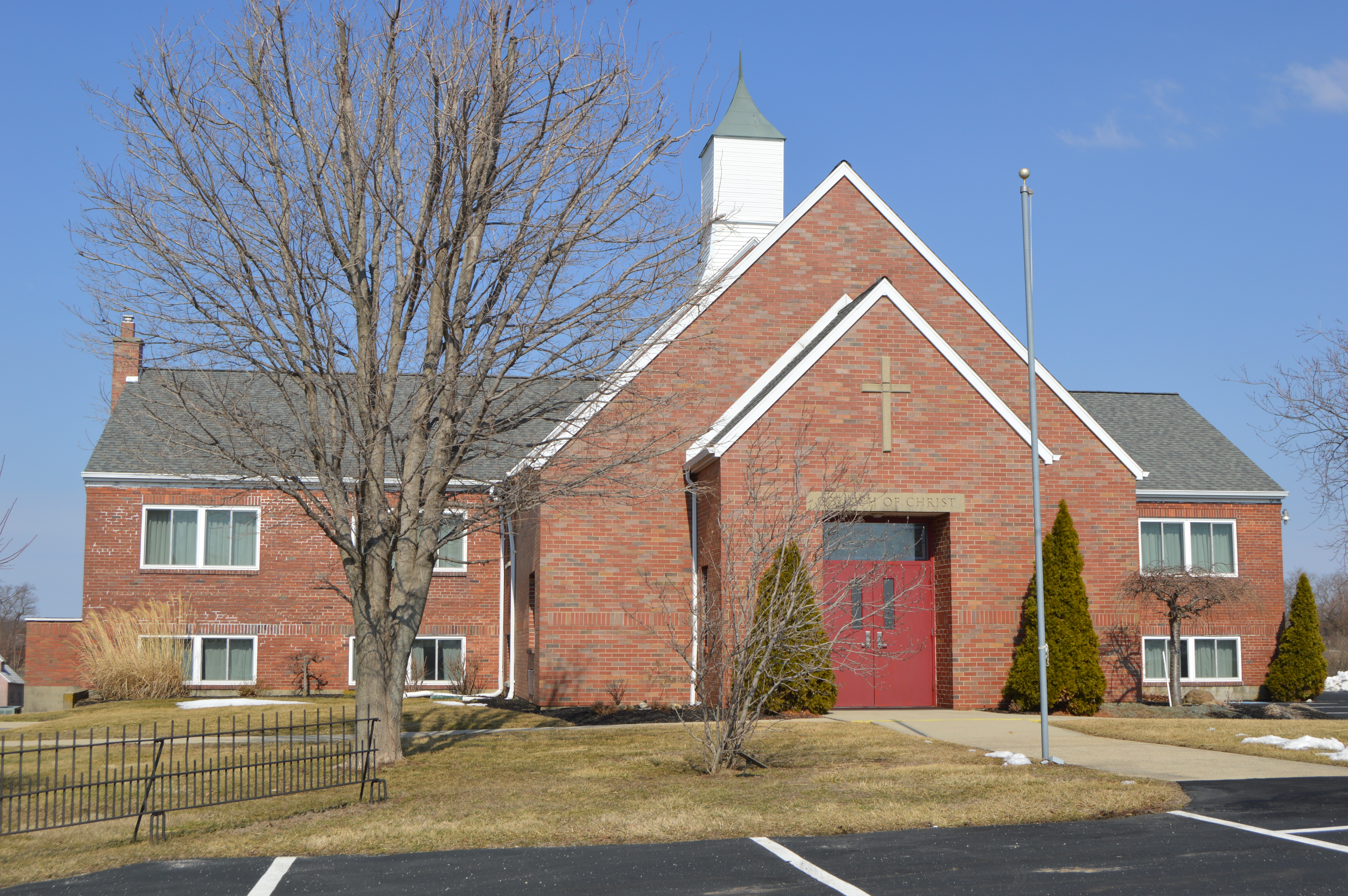 Front of the Grape Grove Church of Christ, located on Grape Grove Road at the community of Grape Grove in Ross Township, Greene County, Ohio, United States.